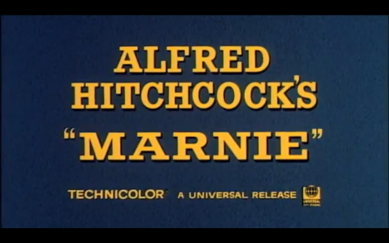 Alfred Hitchcock's Marnie trailer. Title